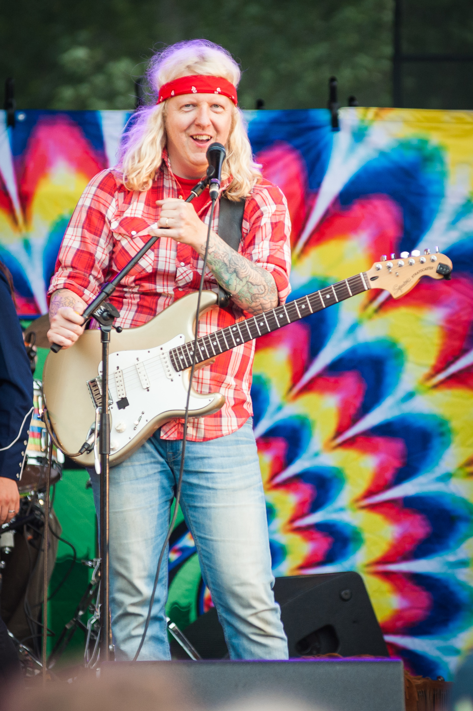 Finnish progressive rock band Saimaa performing at the Ilosaarirock festival in Joensuu, Finland.